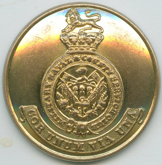 Military, Naval and County Service Club, London, servant's button, c.1849